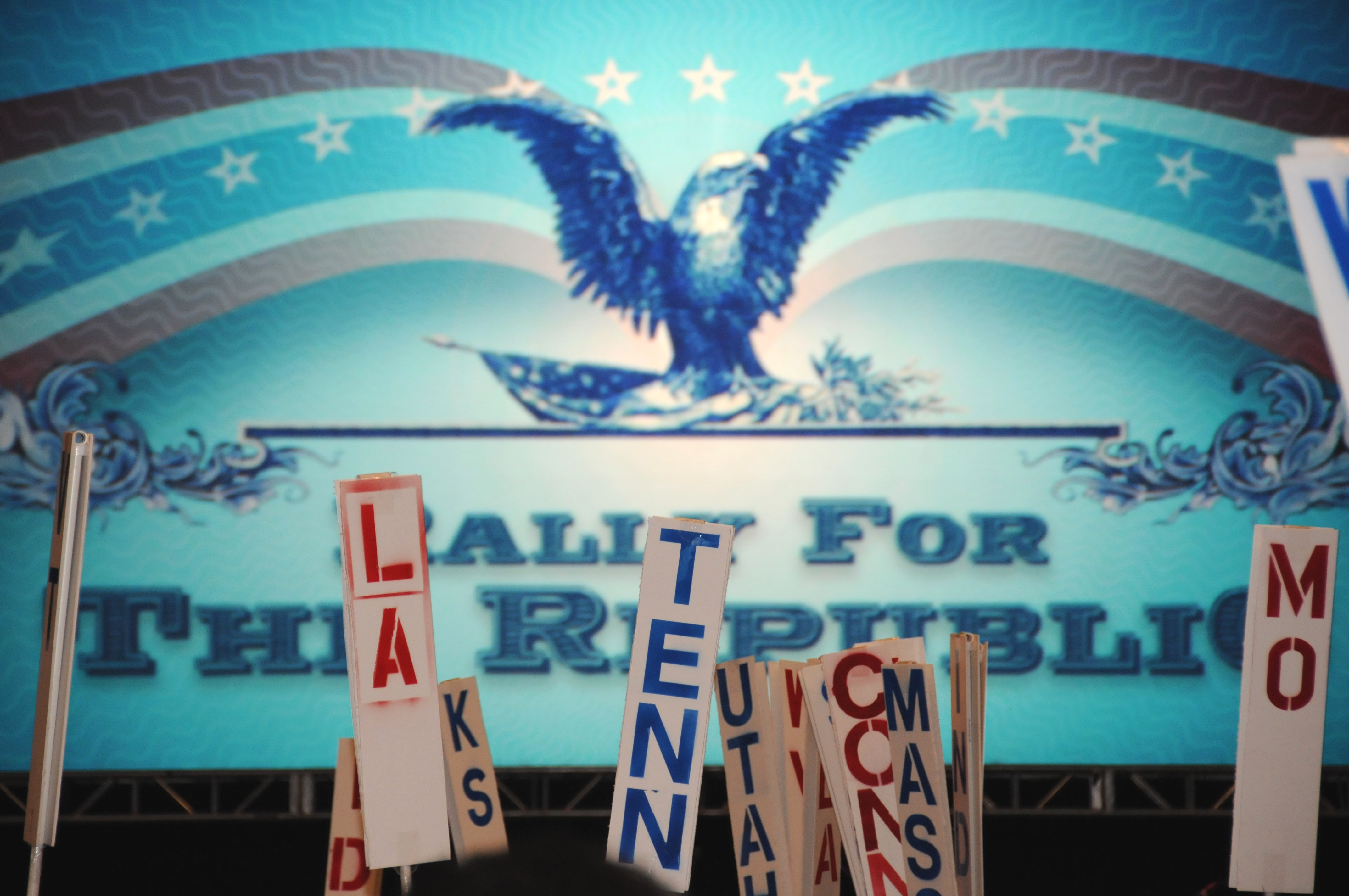 These photos were taken at the Ron Paul: Rally for the Republic on September 2, 2008 at or near the Target Center, Minneapolis, Minnesota.